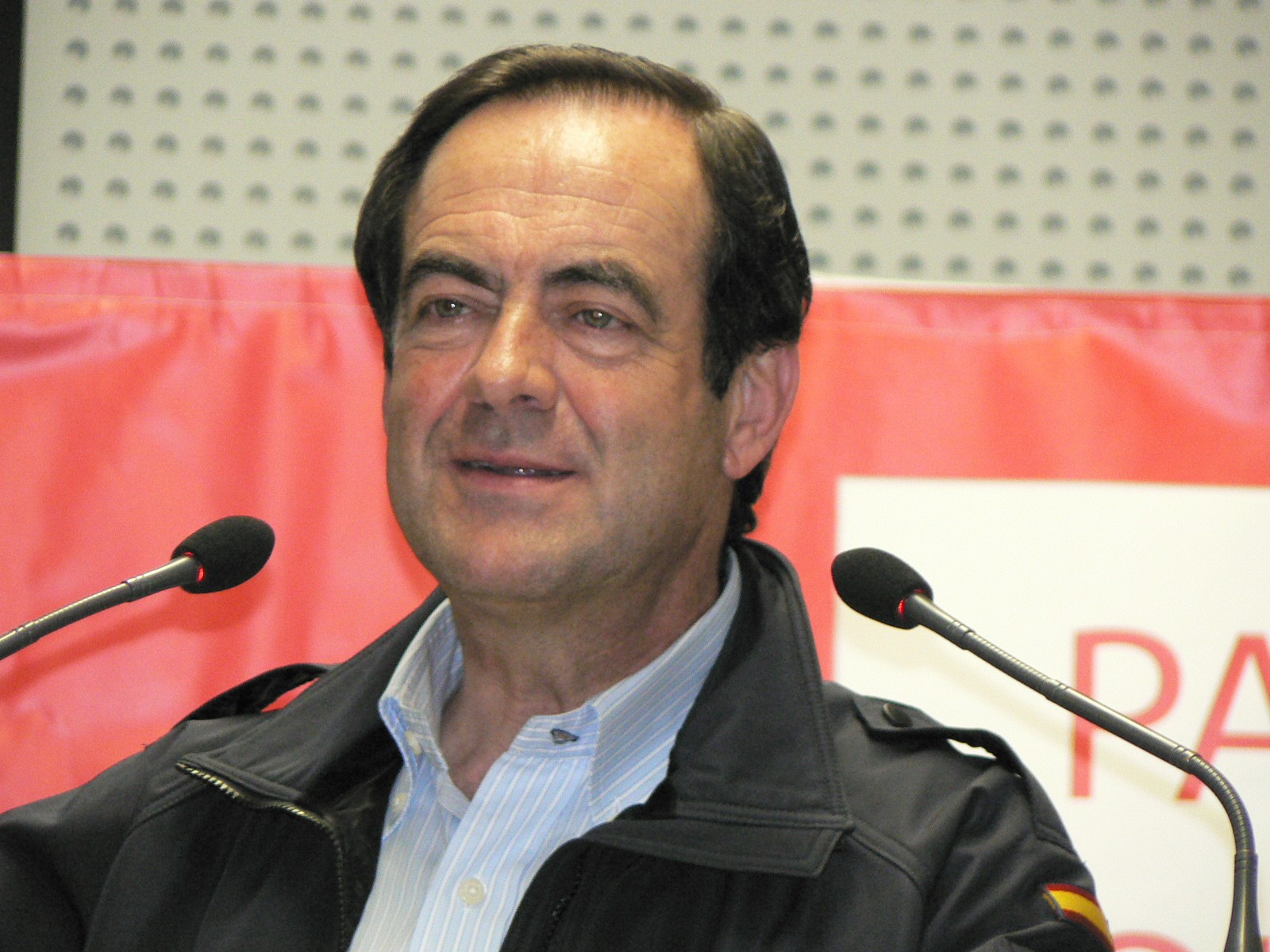 Jose Bono, in a meeting in Azuqueca de Henares (Guadalajara) for local and regional elections of Castilla-La Mancha of the M-22.